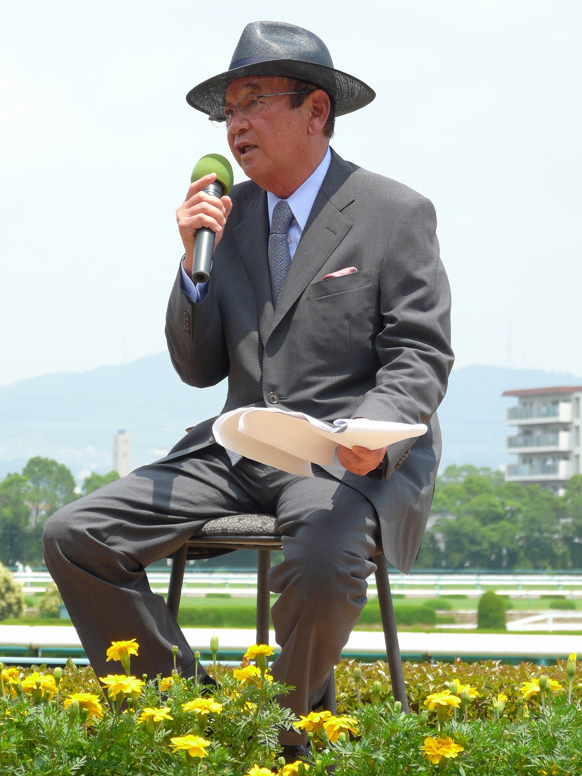 Tsutomu-Setoguchi20100710